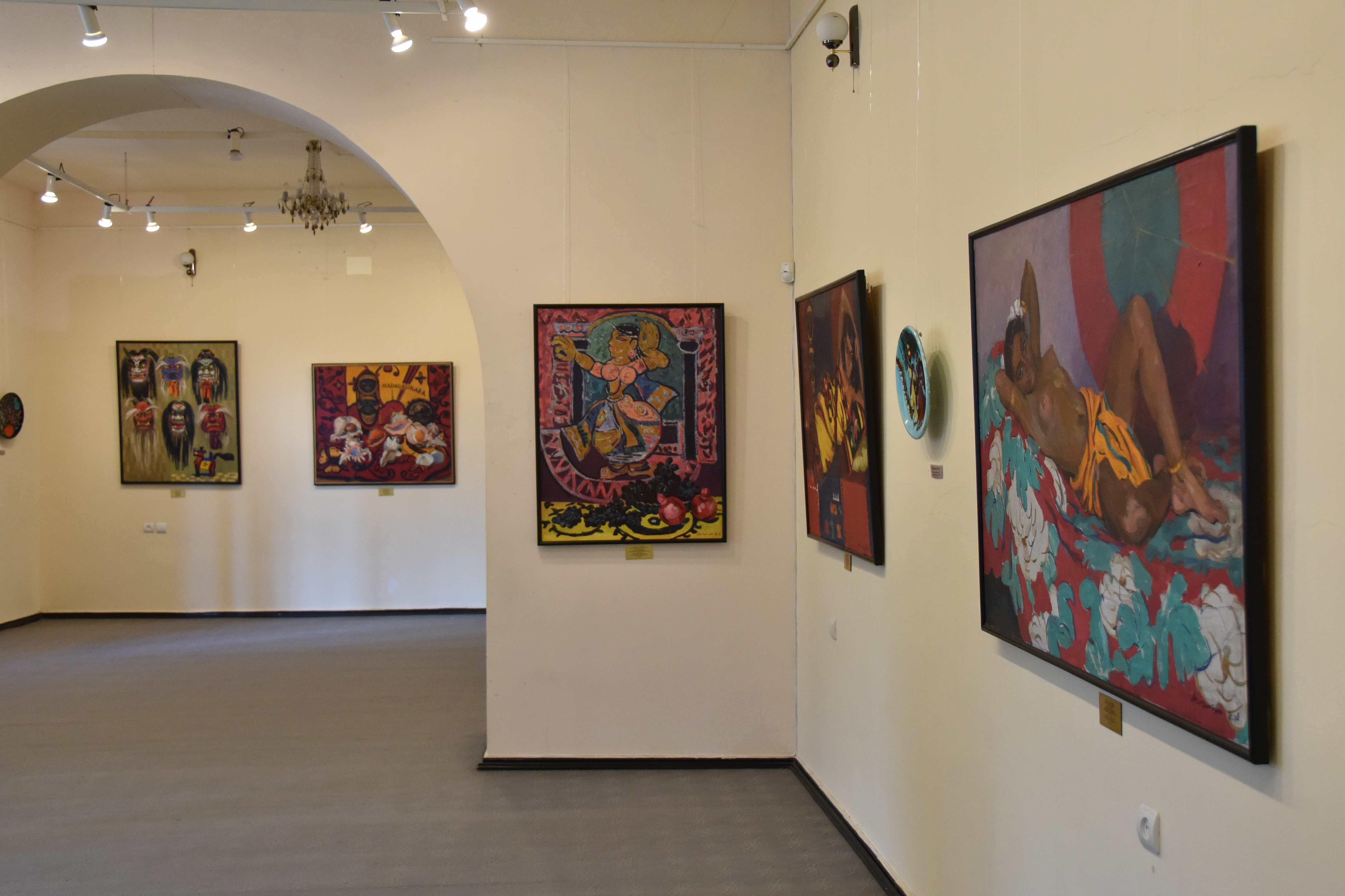 Exhibition of Mariam and Eranuhi Aslamazyan Sisters' works at their Gallery.